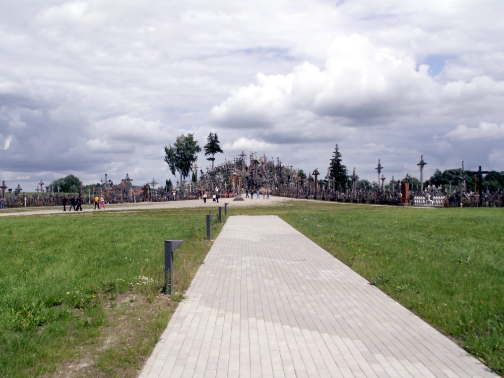 Hill of Crosses